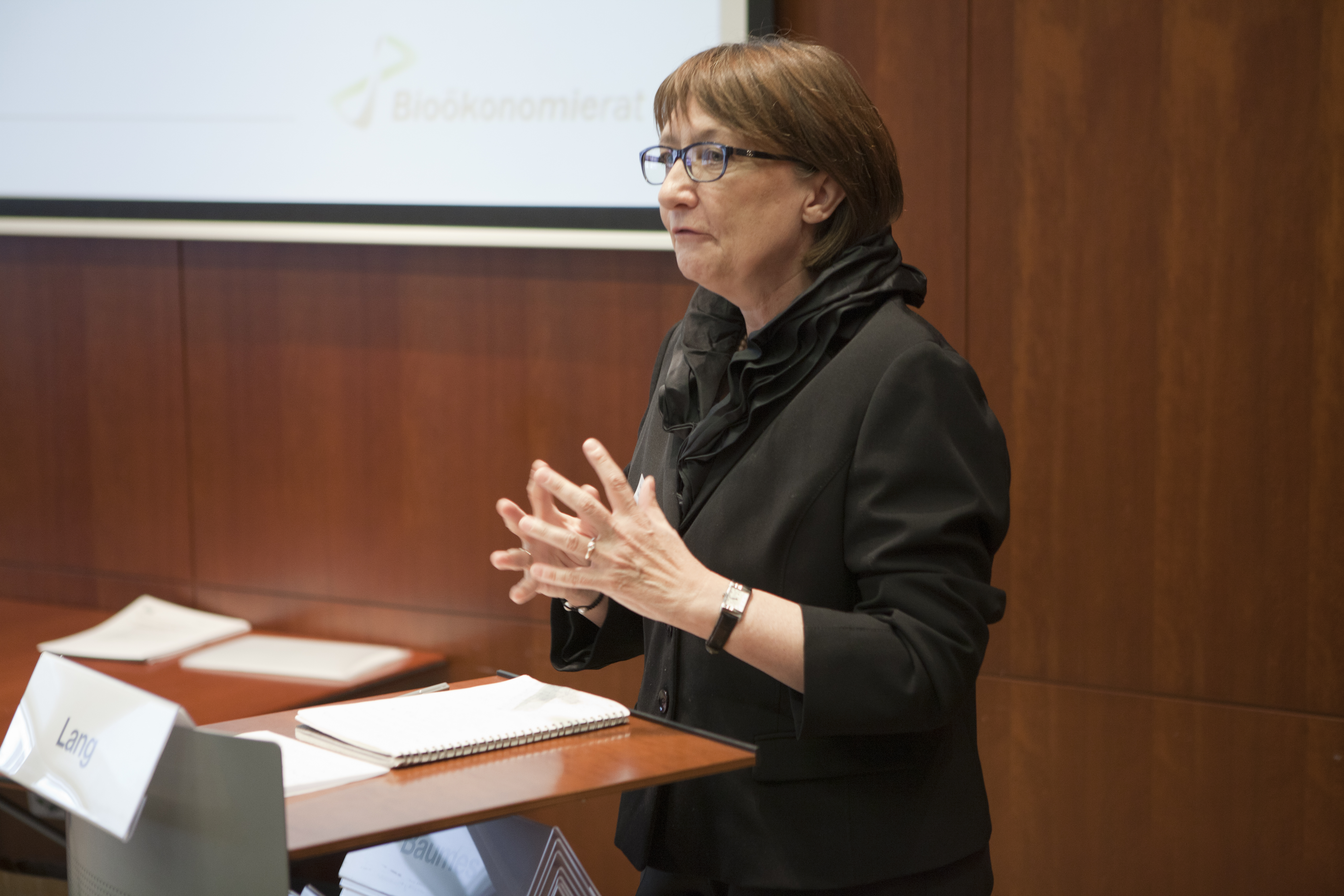 Christine Lang, Chair BE Council, Executive Managing Partner Organobalance GmbH